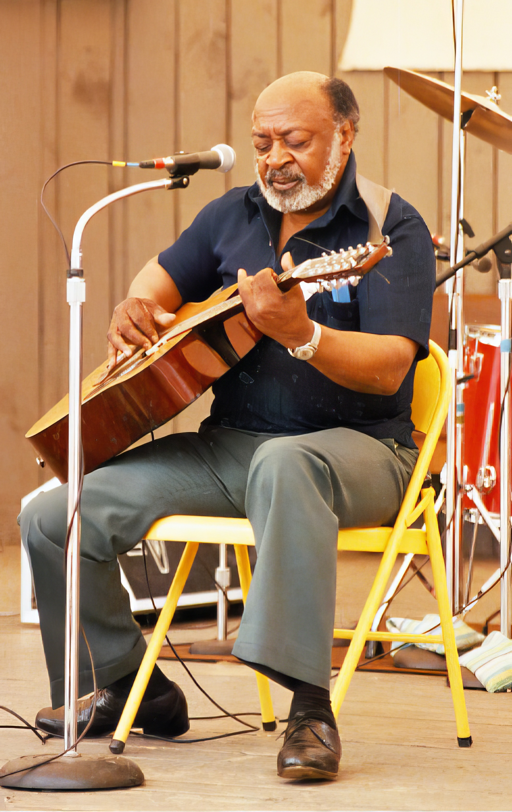 Robert Jr Lockwood, Knoxville, Tenn, 1982